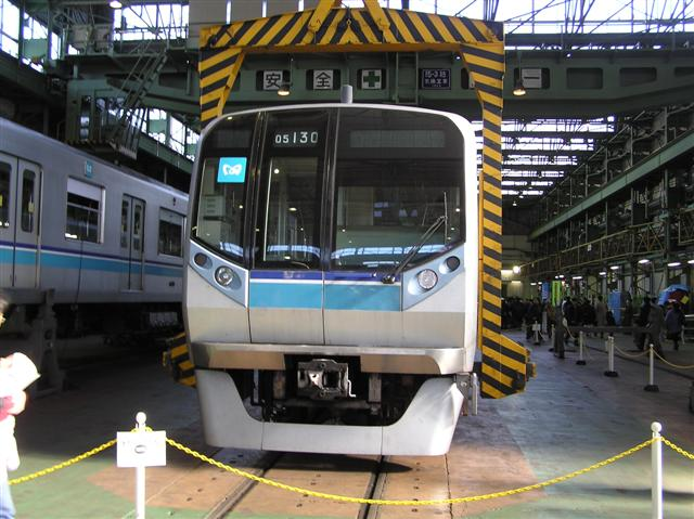 Tokyo Metro Fukagawa Workshop